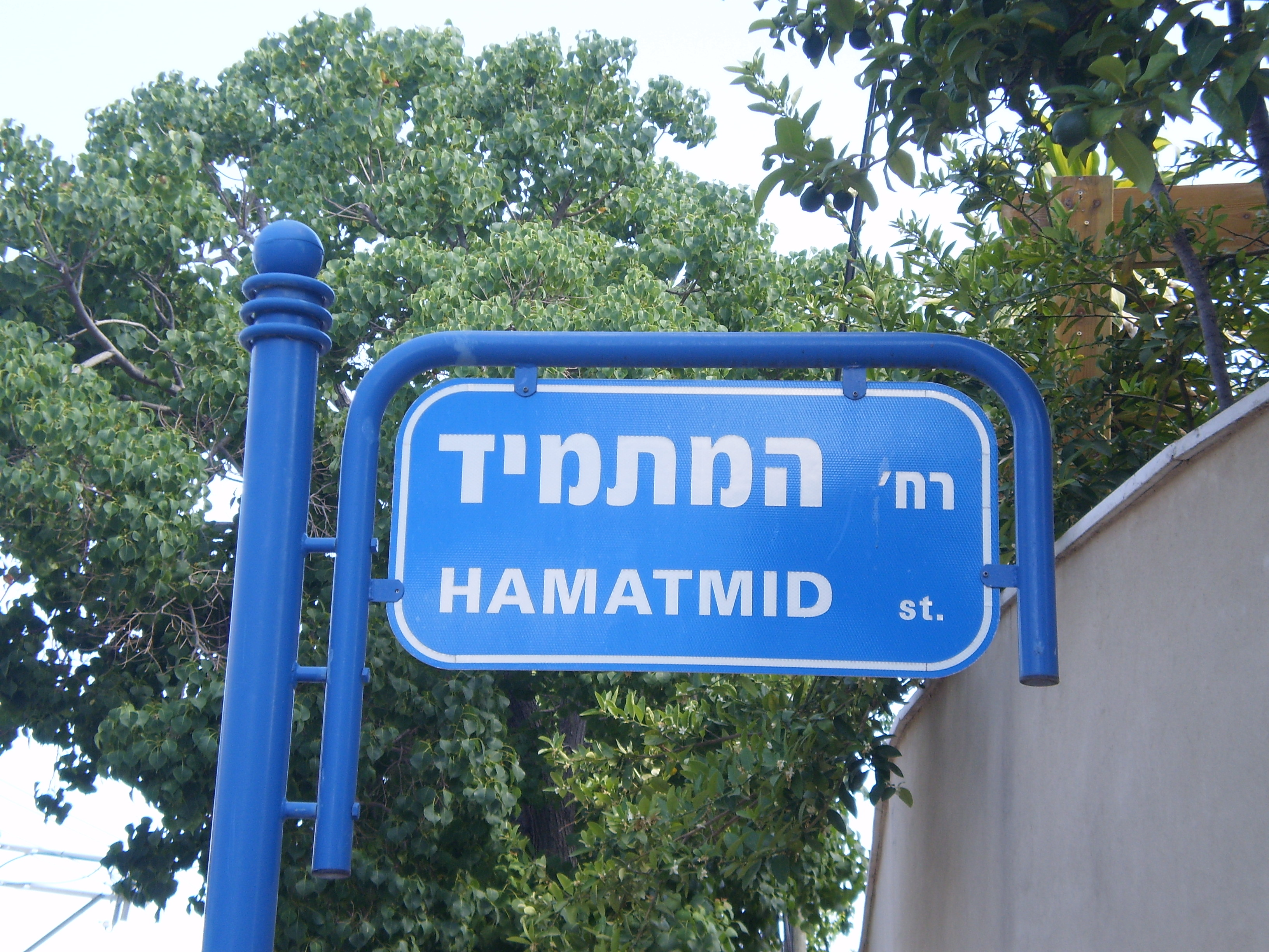 Hamatmid street, Herzliya, Israel